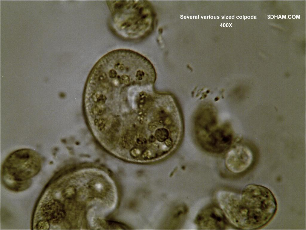 Several colpoda, various sizes Magnified 400 times